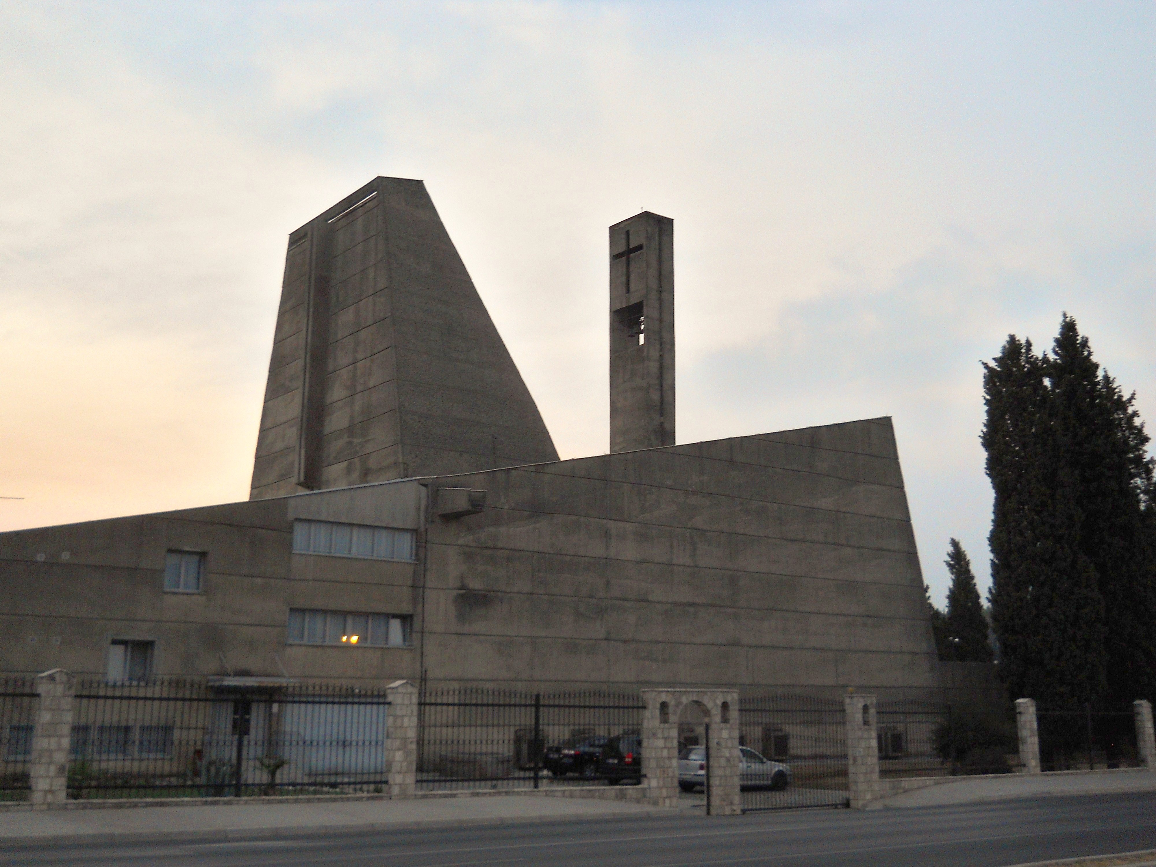 Church of the Holy Heart of Jesus